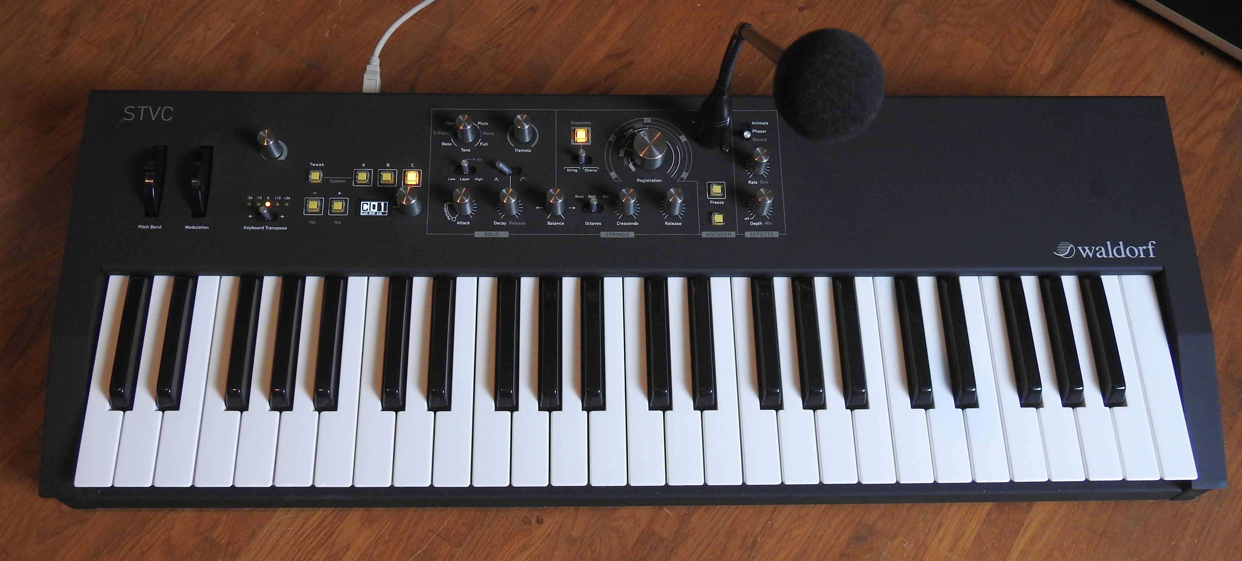 Front view of the Waldorf STVC